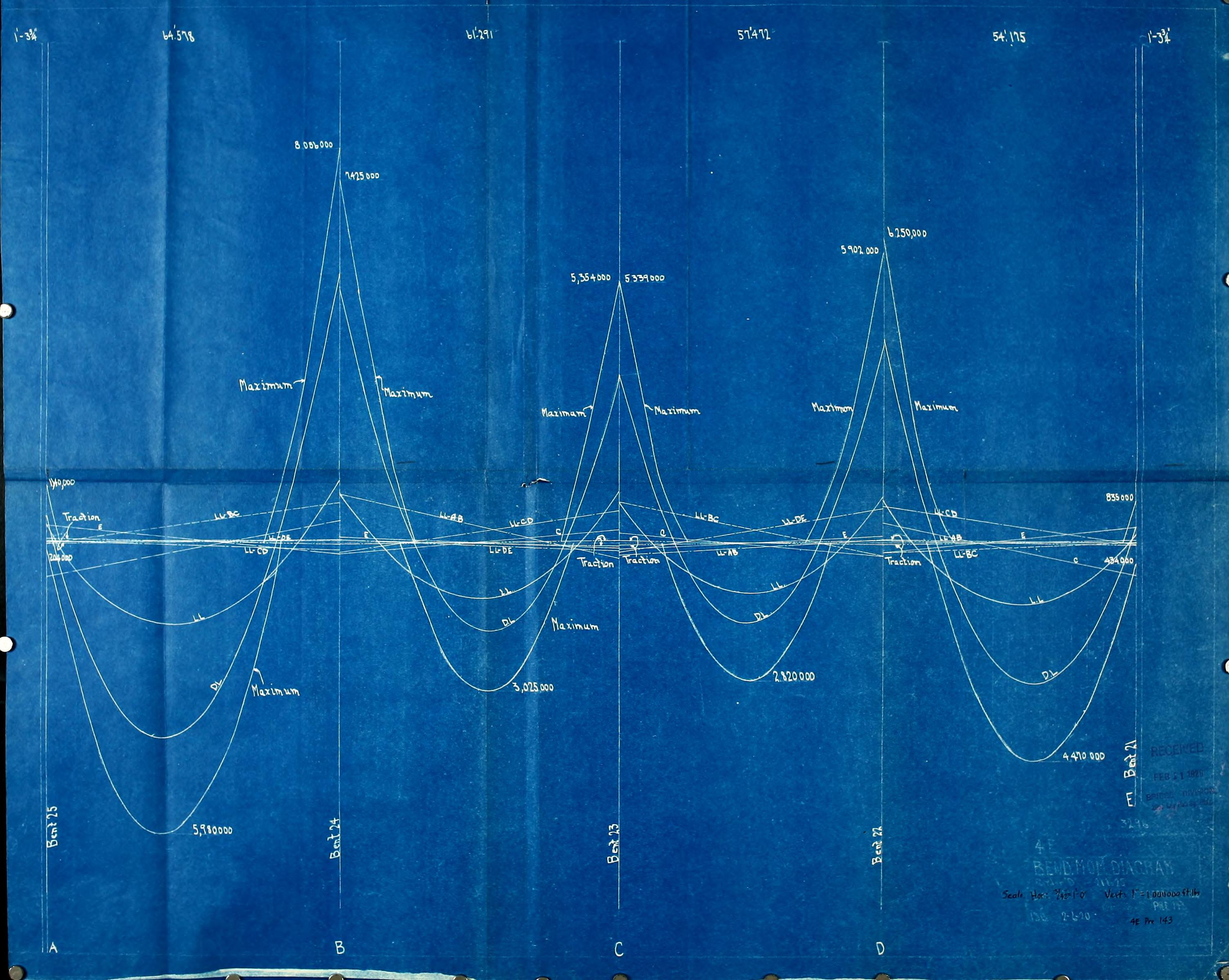 Title: The practical aspect of the slope deflection method and its application to the design of the Roosevelt Road Viaduct Year: 1920 (1920s) Authors: Grodsky, Morris Subjects: Publisher: Text Appearing Before Image: ..iattft»^^.^.. Tq624 29122 G89 Grodsky, Morris Design of Roosevelt road vladi.ct q624- 29122 G89 Armour Institute of TechnologyLibrary CHICAGO, ILL. FOR USE INUBRASY ONLX Text Appearing After Image: ^ISifiJ Bl rga!iiil i I^slS!LI3 (iiwiil I ==119 I I IE